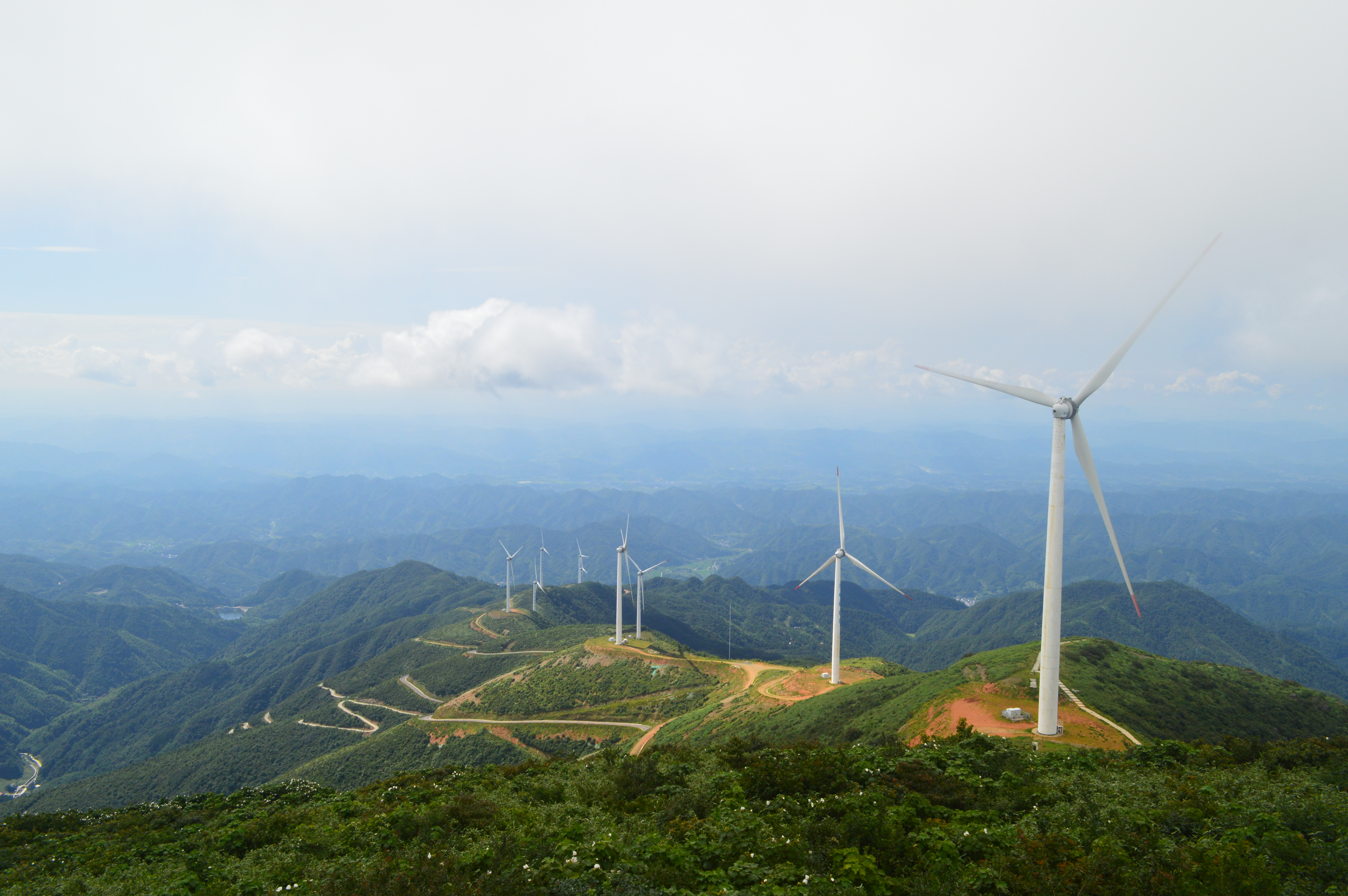 Mount Langshan in Xinning County, Hunan, China. It was made a UNESCO World Heritage Site on August 2, 2010.